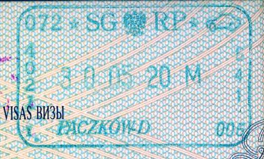 Pre-Schengen passport stamp from Paczkow. 2000